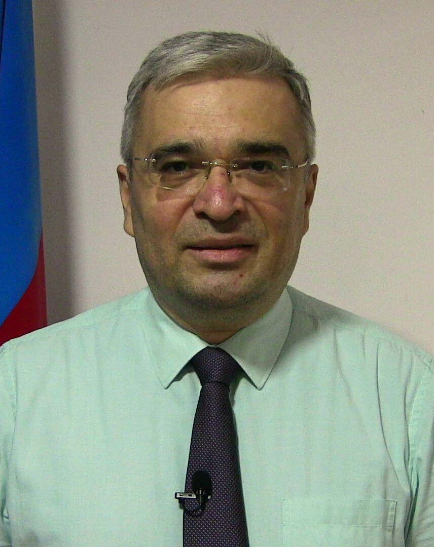 Ilgar Mammadov